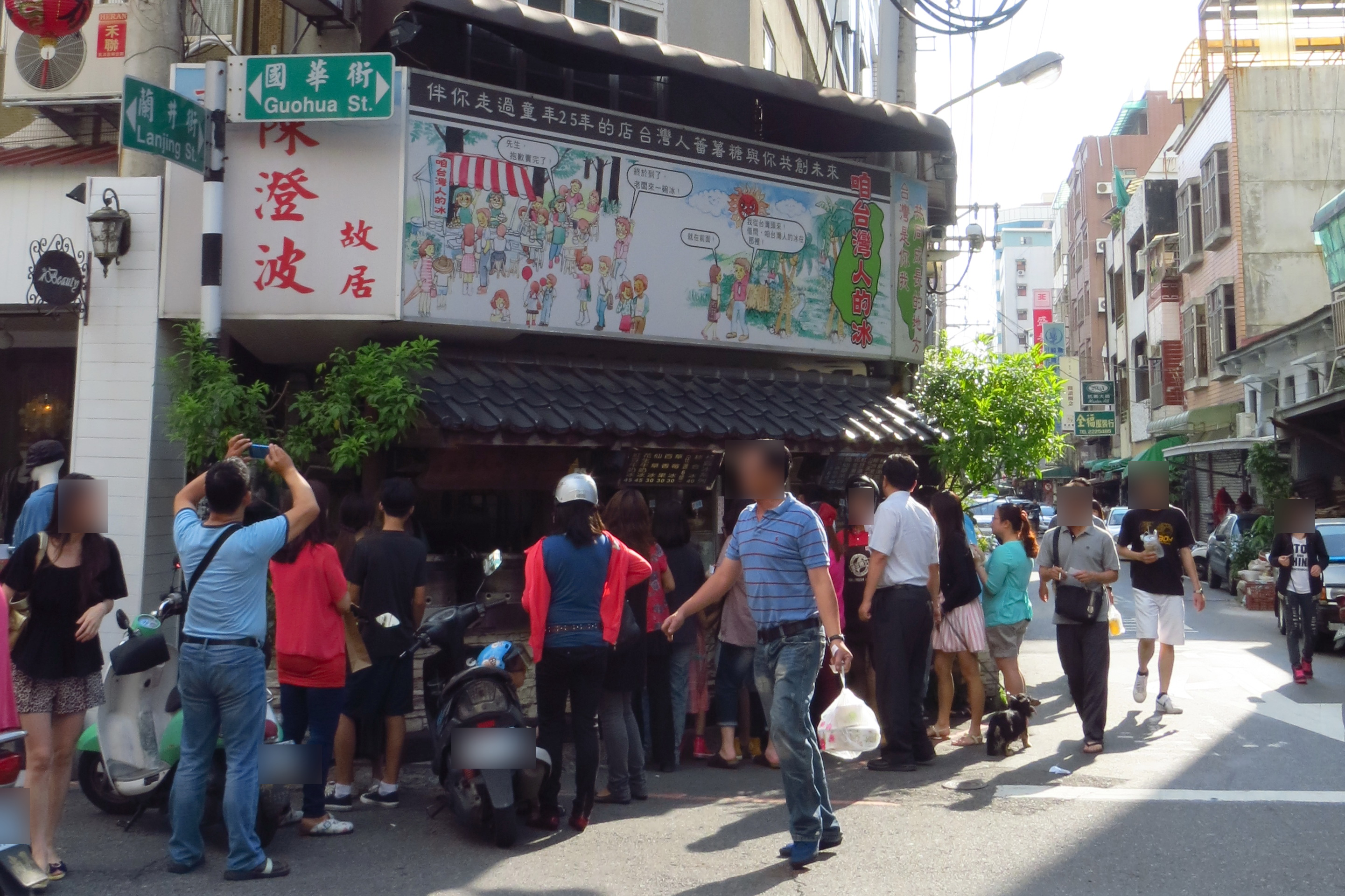 Former residence of Chen Cheng-po at the intersection of Lanjing Street and Guohua Street, West District, Chiayi City, Taiwan.